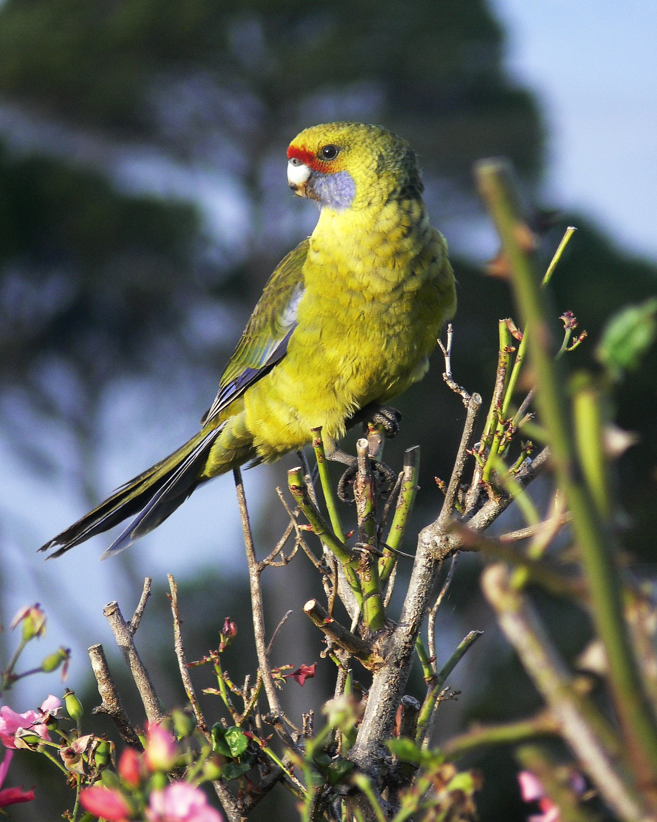 A juvenile Green Rosella on Tamar Island, near Launceston, Tasmania.